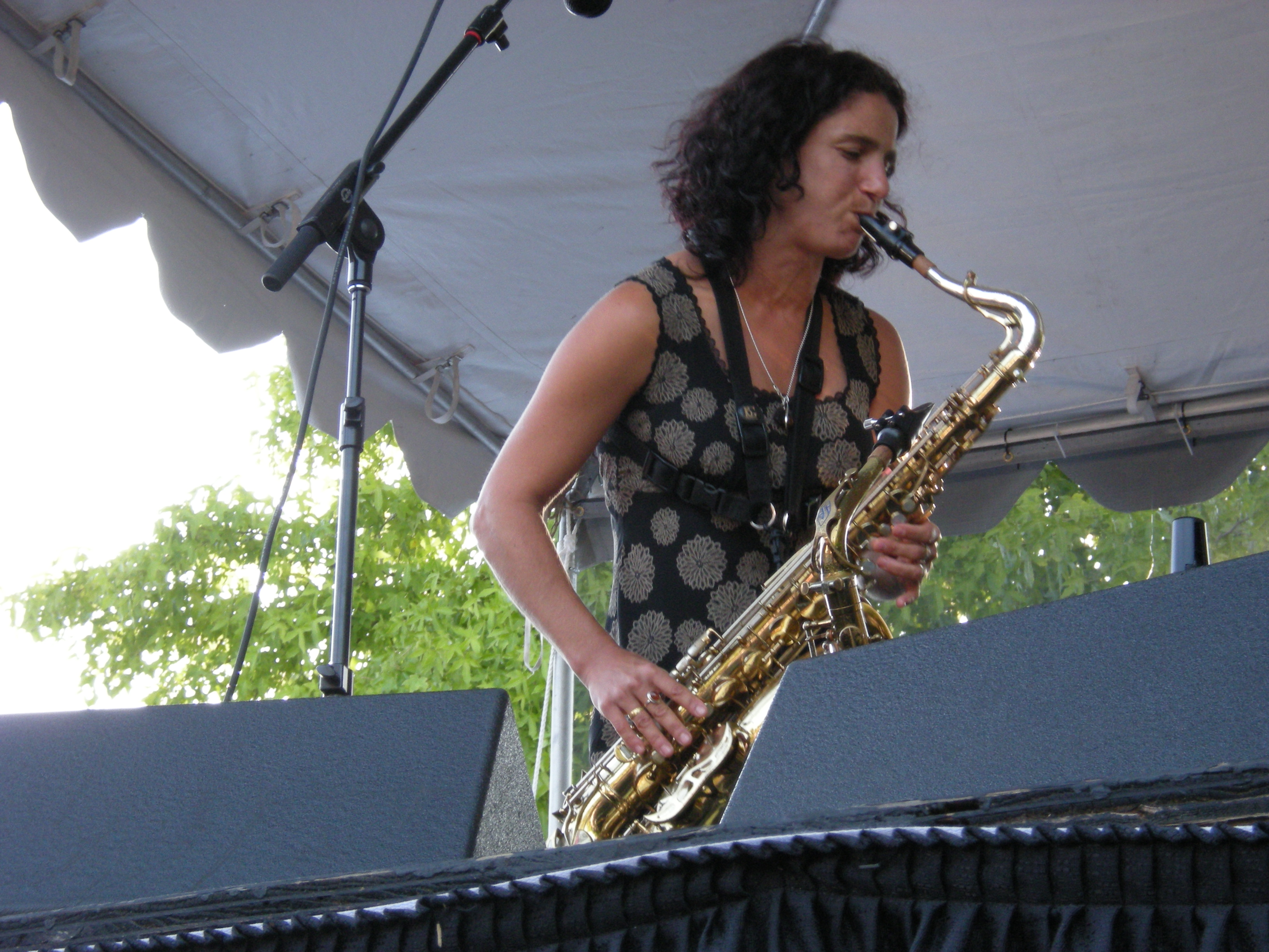 Jessica Lurie, Billy Tipton Memorial Saxophone Quartet, performing at Bumbershoot 2008, Seattle Center, Seattle, Washington.